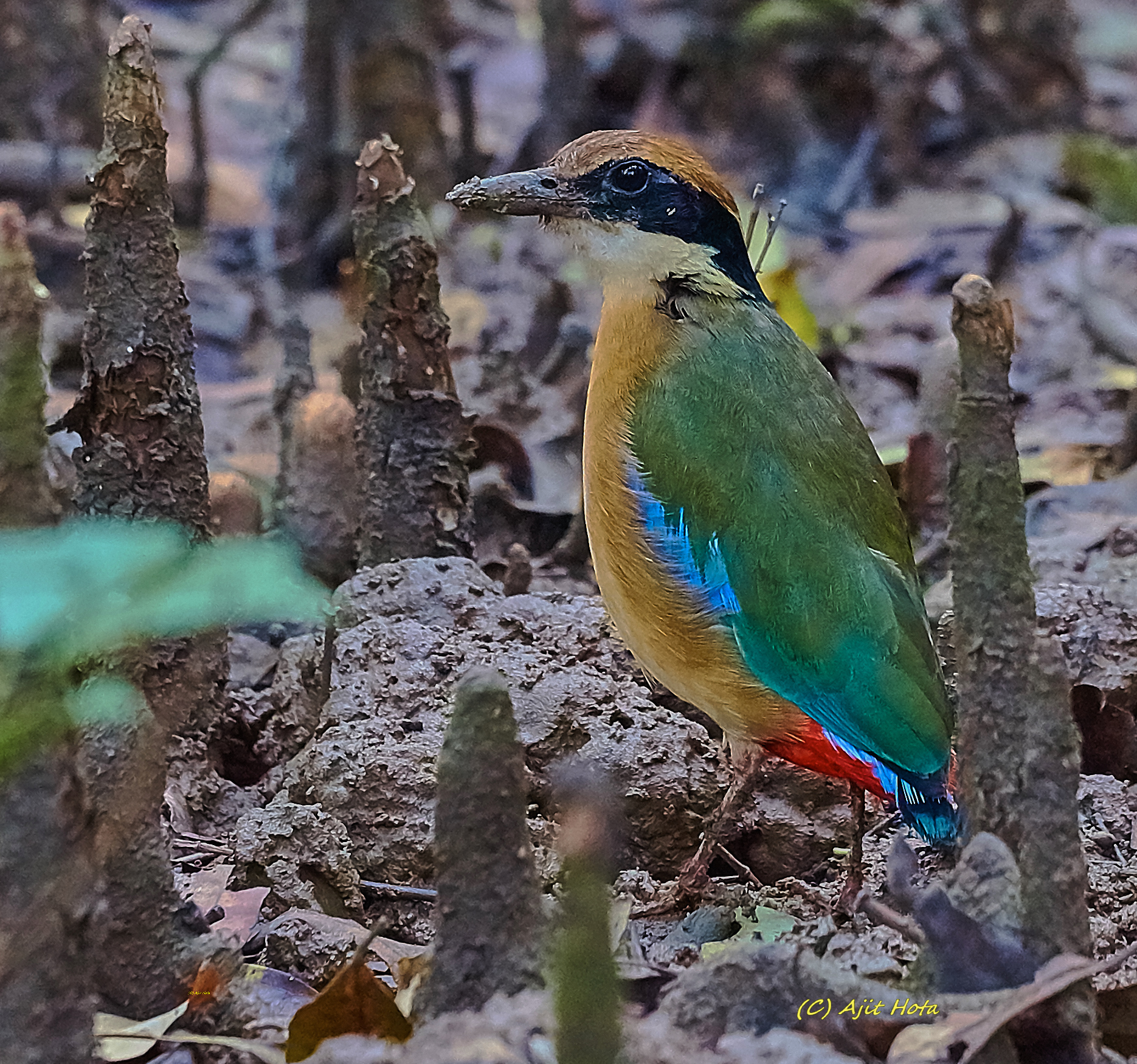 The beautiful Mangrove Pitta at Bhitarkanika, Odisha